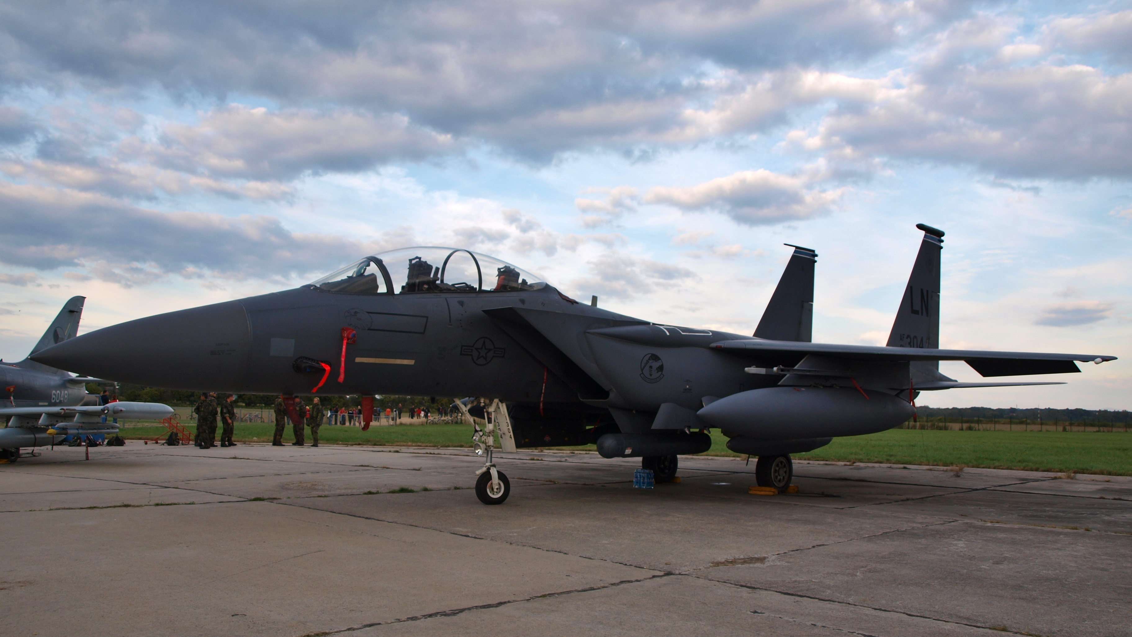 Aircraft F-15E '91-0304/LN', 48th Fighter Wing, at Dny NATO in Ostrava, Czech Republic. It crashed on March 22, 2011 in Libya, while flying a sortie for Operation Odyssey Dawn. Both pilots ejected and were rescued.